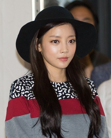 Goo Hara in August 2014